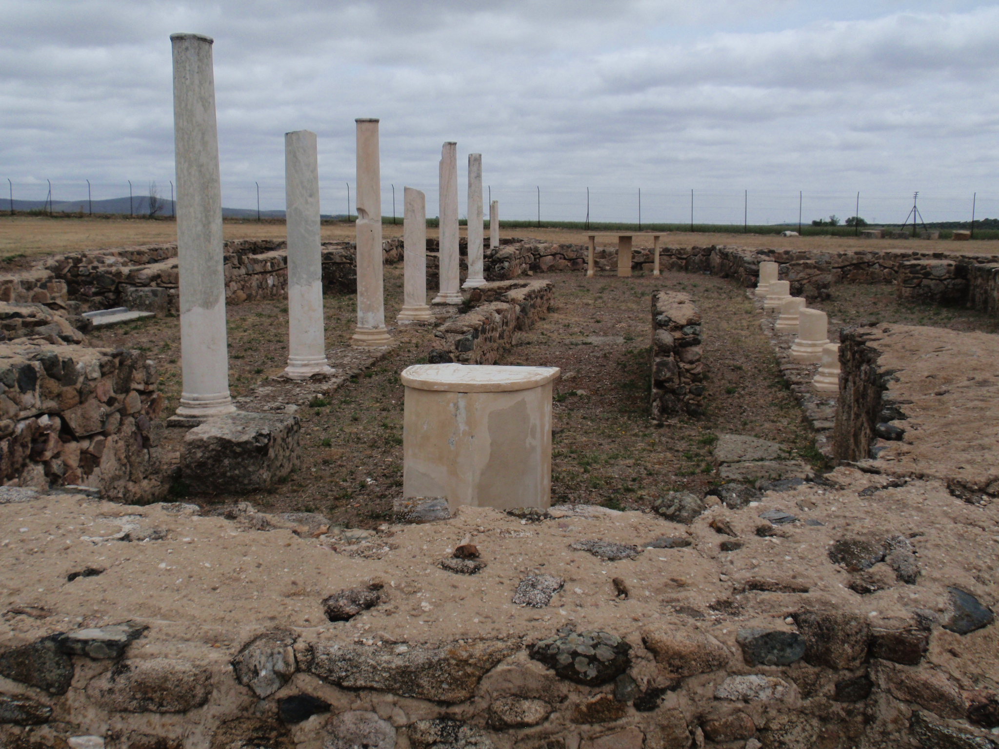 Photograph of the Casa Herrera Basilica (Mérida, Spain)